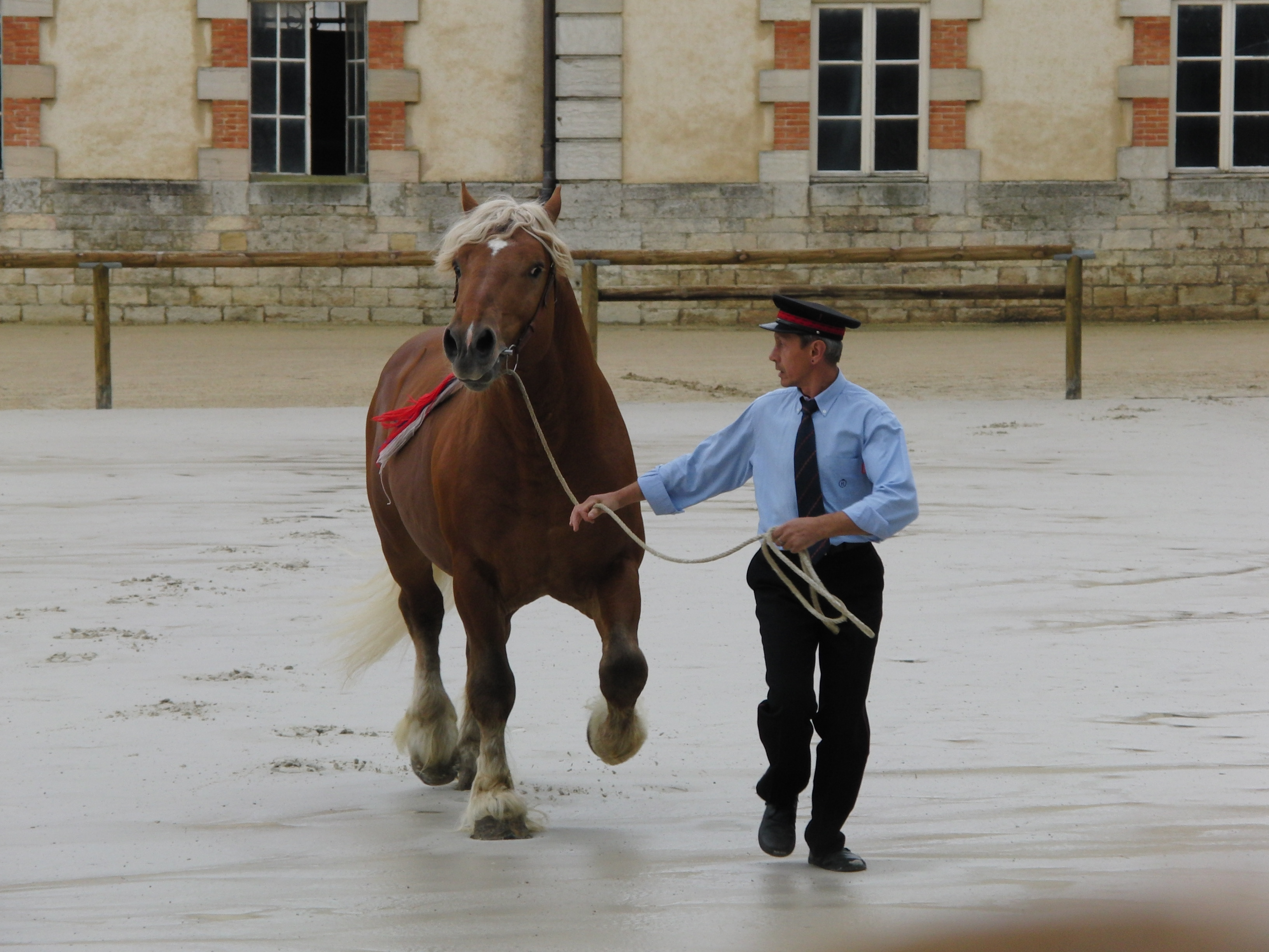 Comtois stallion, Haras de Cluny, Saône-et-Loire, France